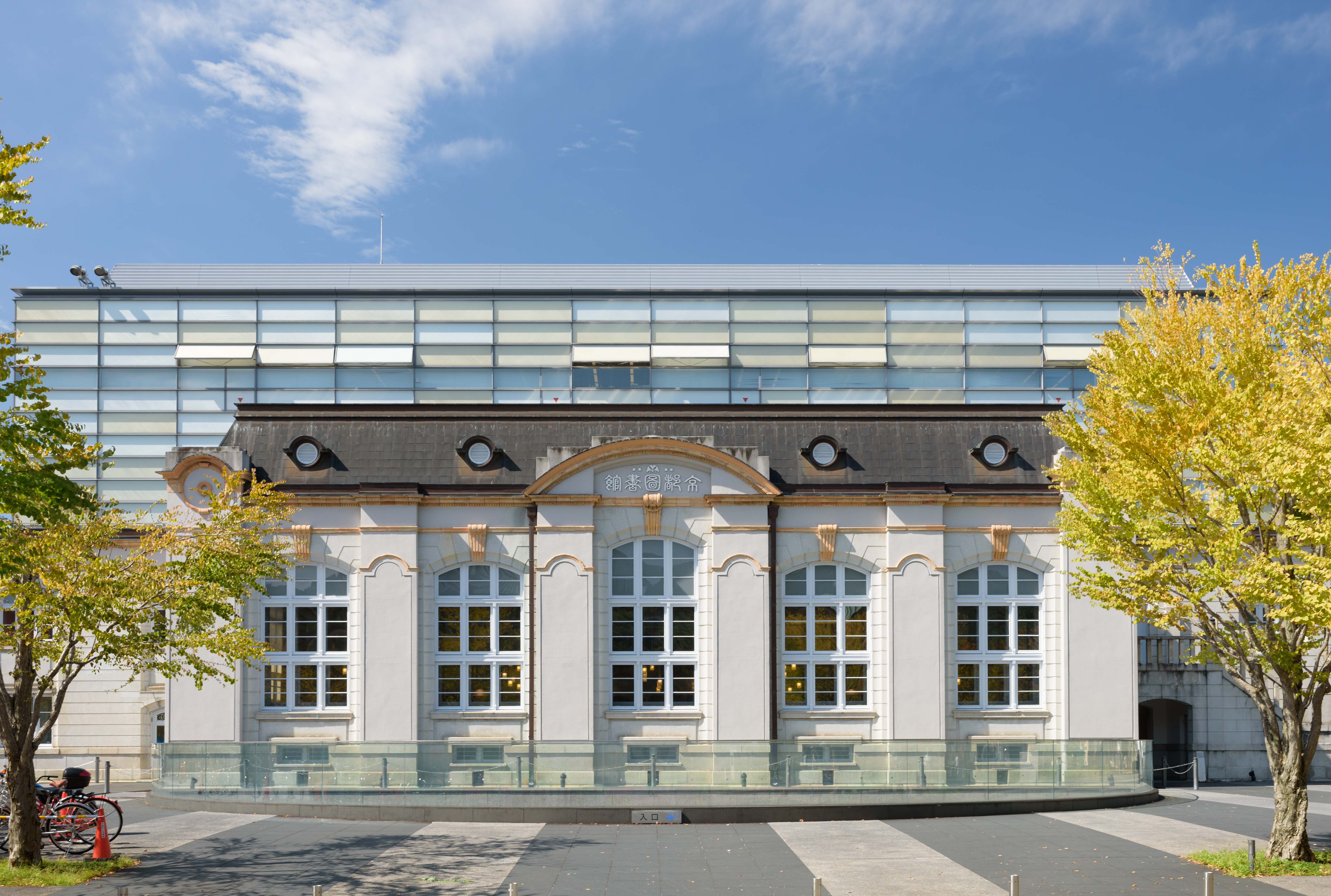 Kyoto Prefectural Library